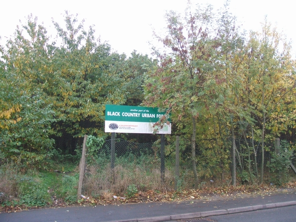 Black Country Urban Forest The Black Country Urban Forest is a collective name for this initiative to green up the urban landscape by planting trees on small areas of former industrial wasteland.